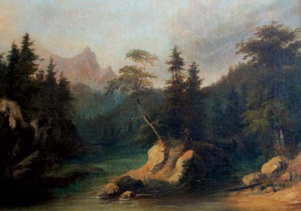 Mountainous Landscape, painting by Adolf Kosárek. Oil on canvas, 42 x 58 cm.